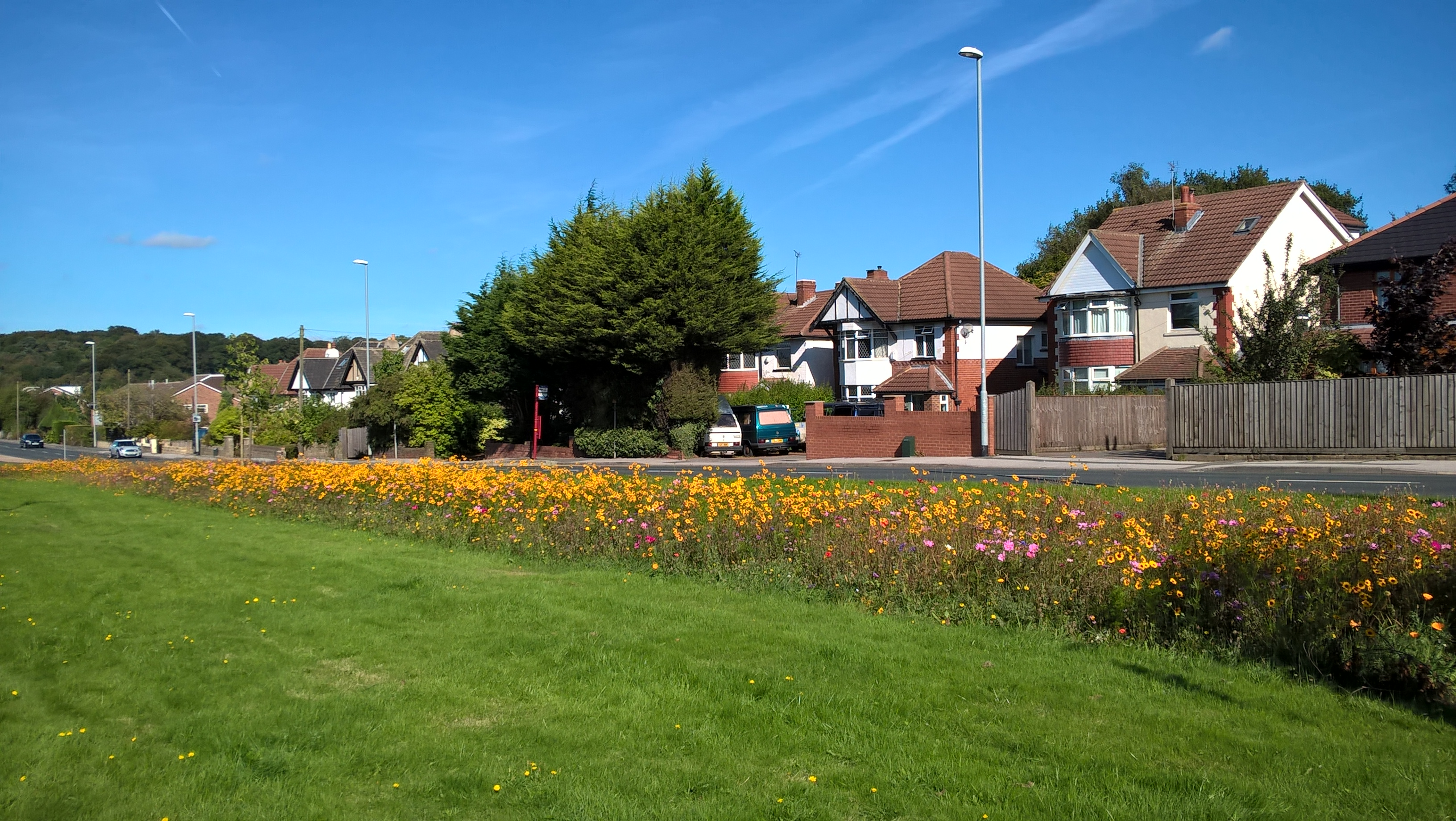 King Lane, Alwoodley, Leeds LS17. Bed of flowers planted by Alwoodley Parish Council